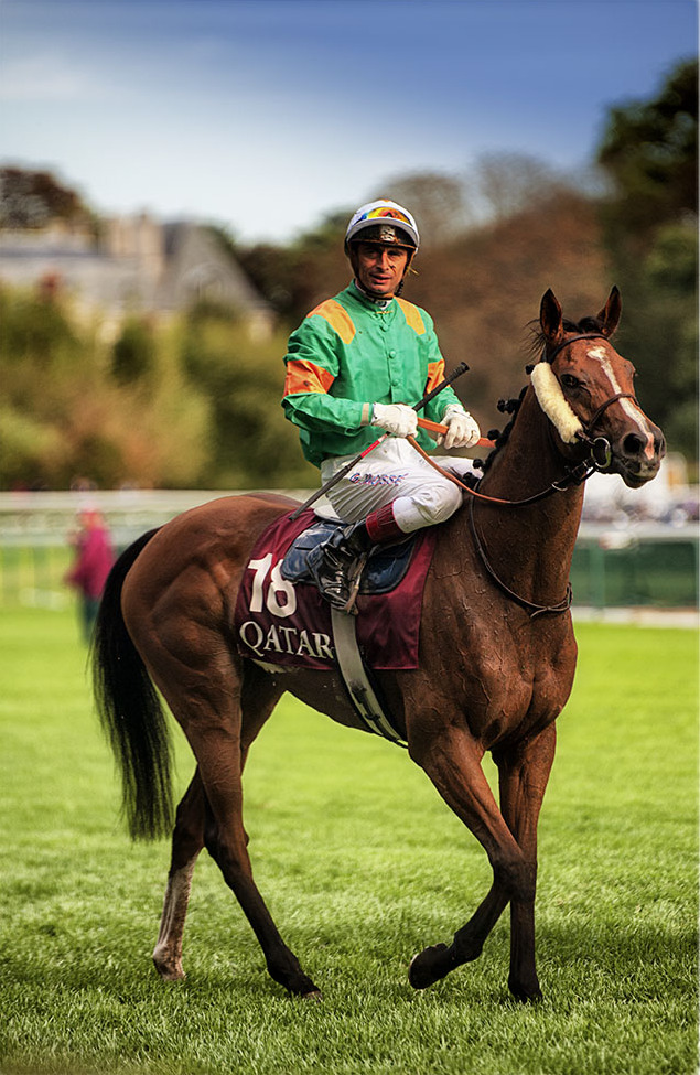 Gerald Mosse at Longchamps in 2012